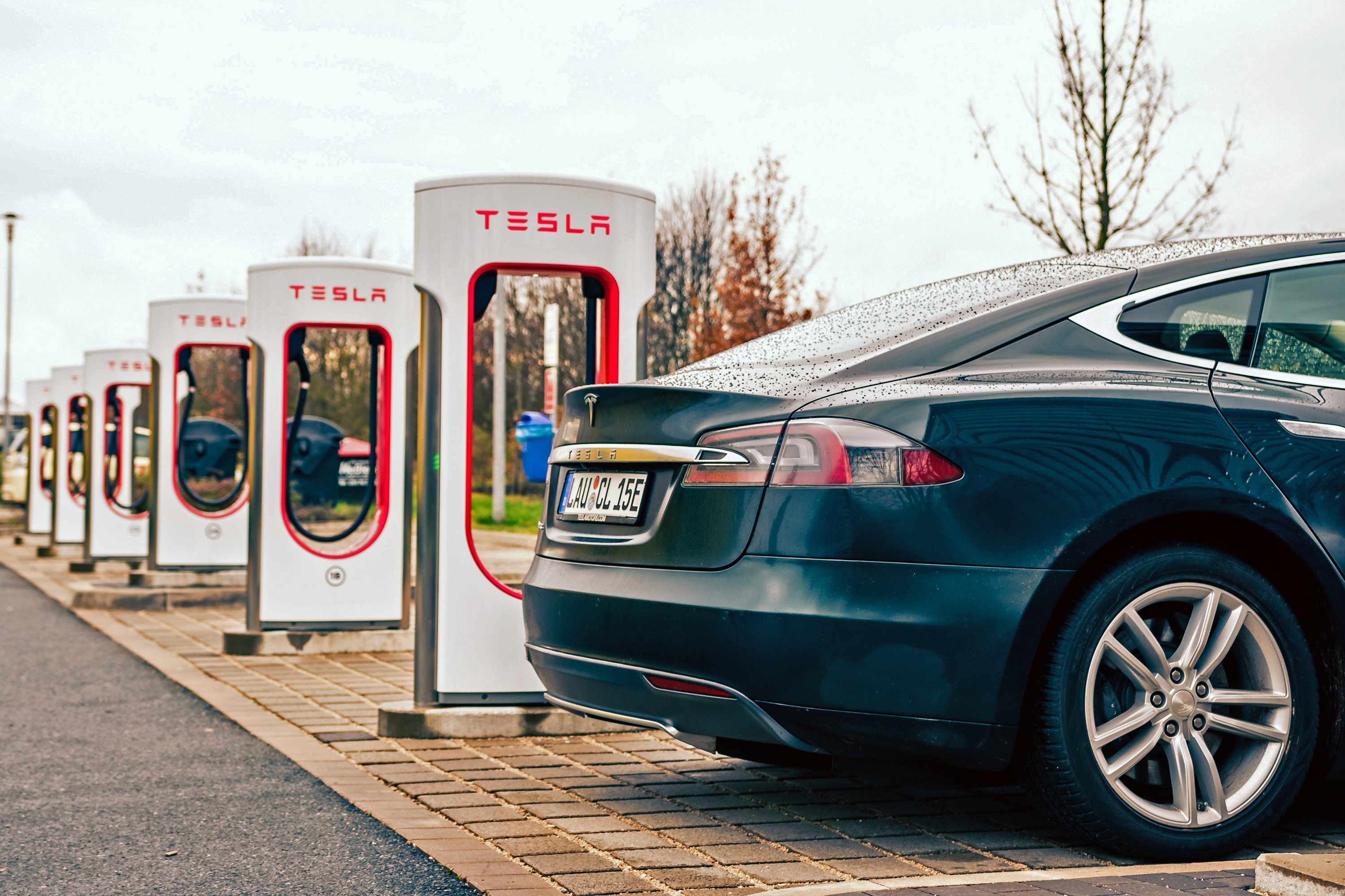 Tesla Model S charging at a Tesla Supercharger station in Germany